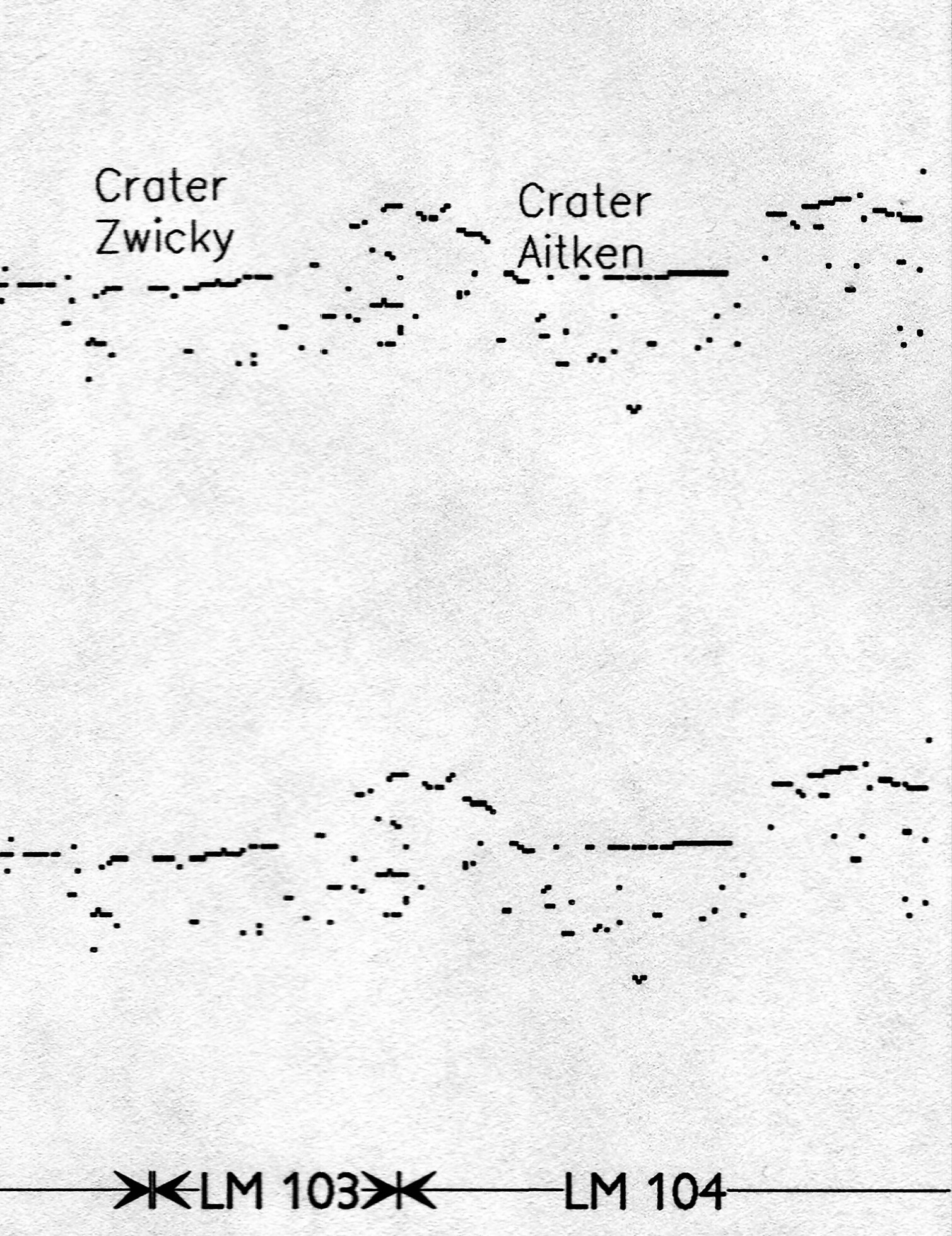 Moon, Apollo Lunar Sounder (ALSE) radar data. Cross-groundtrack correlation of the two orbits results in an image in which the likelihood of spurious off-nadir returns is greatly reduced, allowing interpretation of possible subsurface features.